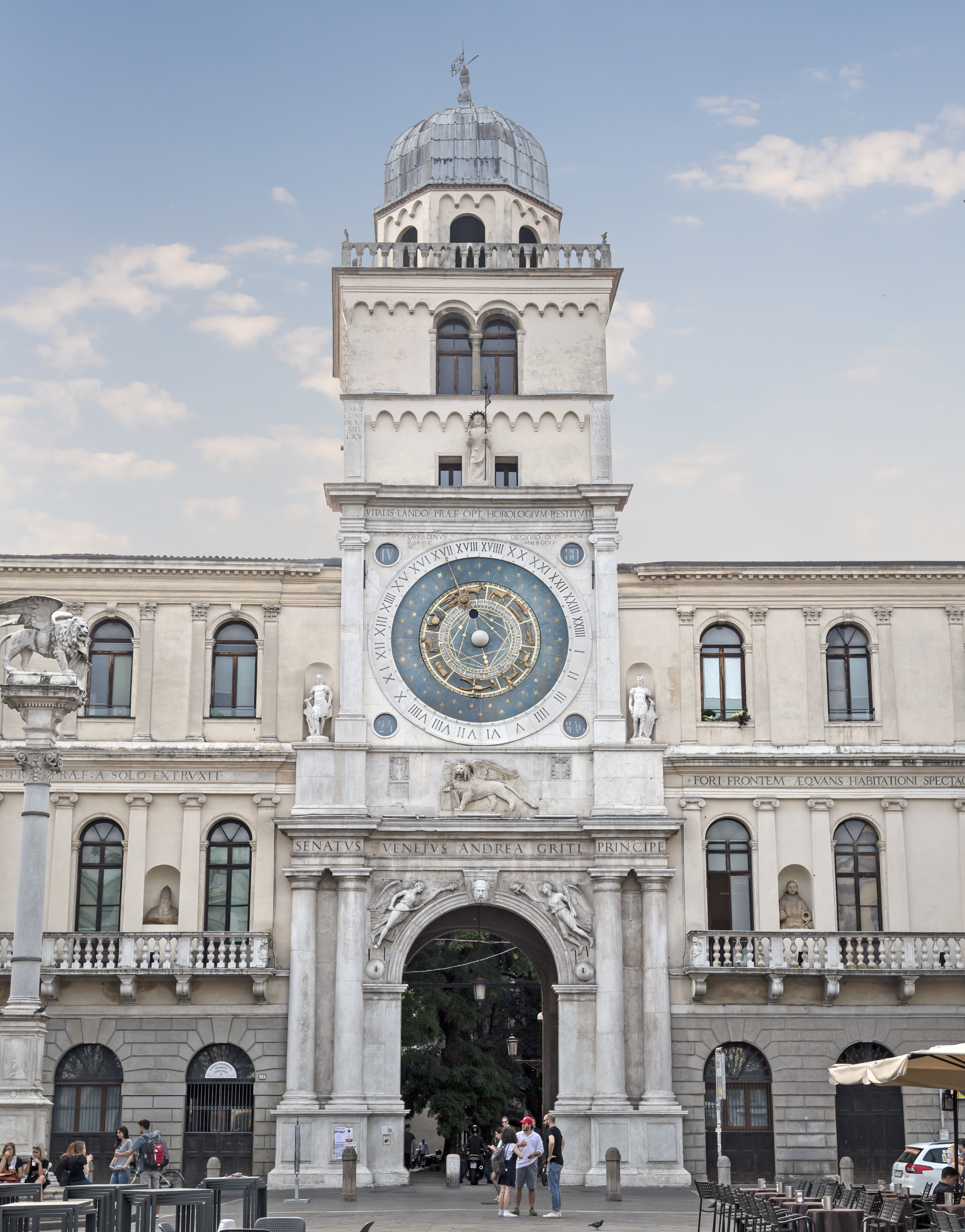 La Torre dell'Orologio is a building of medieval origin that overlooks Piazza dei Signori in Padua. It stands between the Palazzo del Capitanio and the Palazzo dei Camerlenghi. The tower was built in the first half of the fourteenth century as the eastern gate of the Royal Palace of Carrara. In 1428 it was raised and adorned in Gothic style and equipped with the famous astronomical clock. In 1531 the great triumphal arch was added to the base, designed by Giovanni Maria Falconetto.